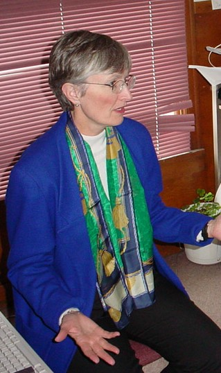 Beth Marino interviews Alaska gubinatorial candidate Fran Ulmer in the None Nugget offices